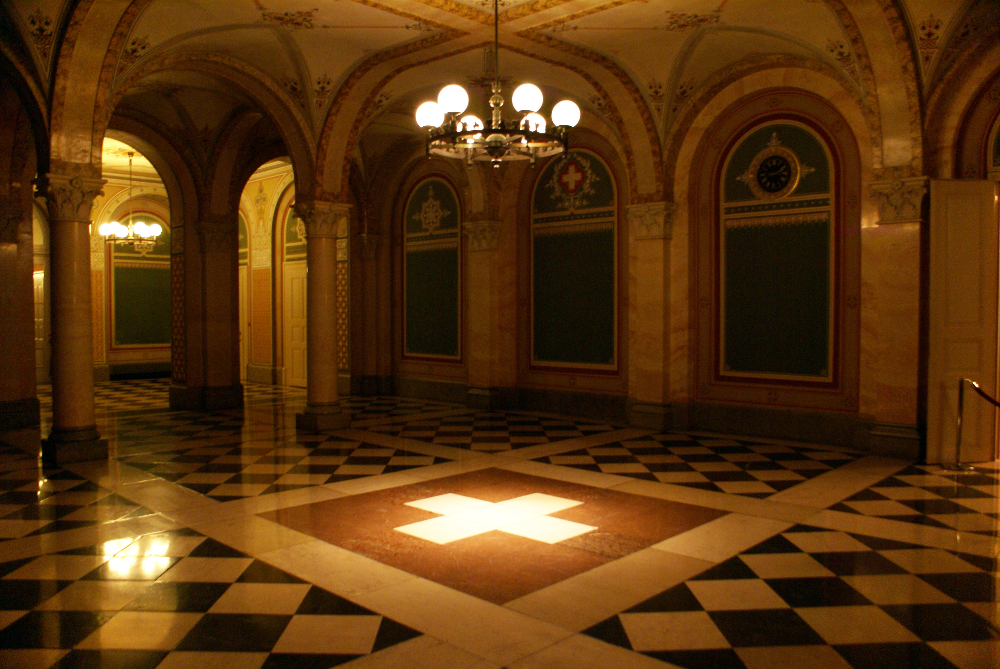 Vestibule in the Bundeshaus West, the west wing of the Swiss Federal Palace in Berne, Switzerland. The Bundeshaus West is the headquarters of the Swiss Federal Council, the government of Switzerland.